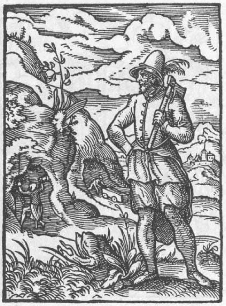 This image shows a german miner in the 16th century.